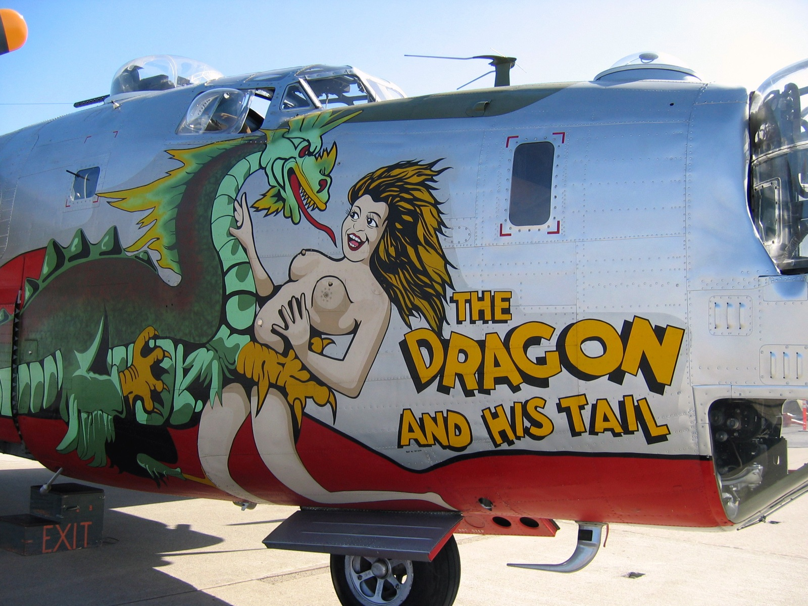 Photograph of the "Dragon and His Tail" nose art on a B-24 Liberator. Taken on the ramp at Moffet Field.